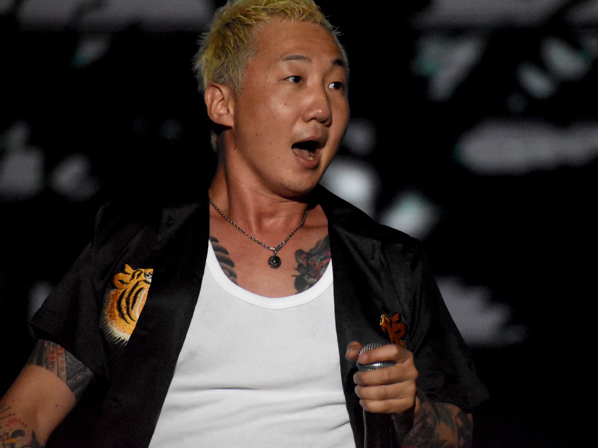 No Brain at the 23rd Busan Sea Festival in Haeundae on August 3, 2018.